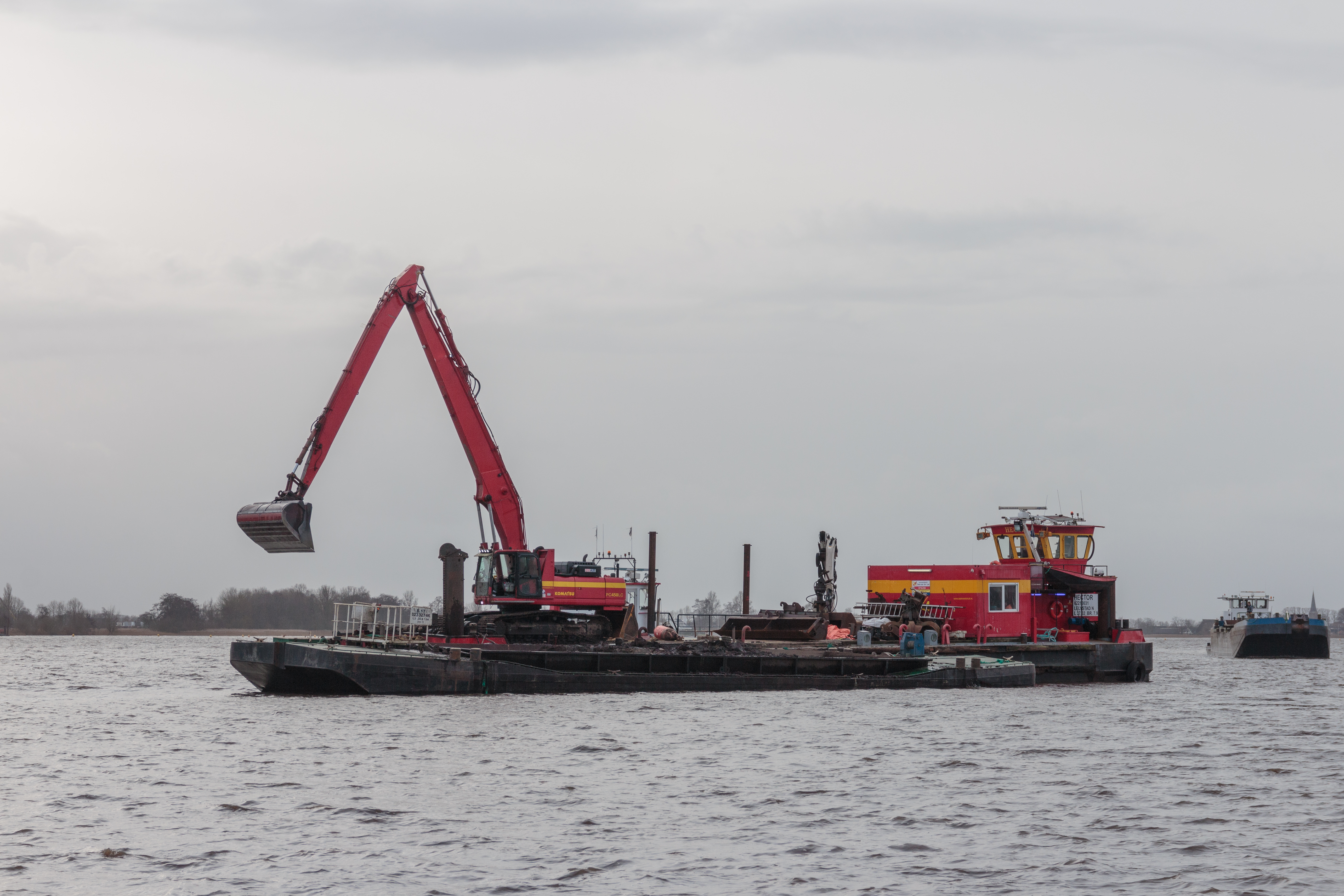 Dredging Langweerderwielen (Langwarder Wielen) from Motor freighter Hector.